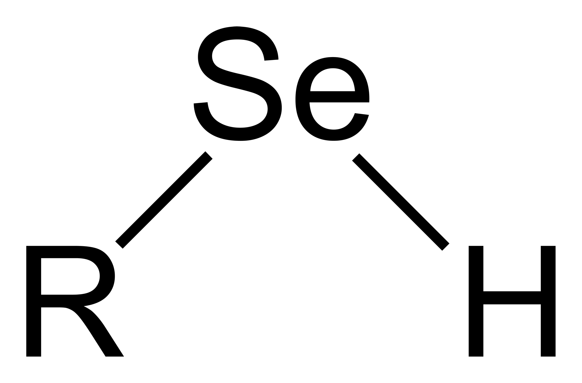 Structural formula of a generic selenol, RSeH. Image generated in ChemBioDraw Ultra 12.0.